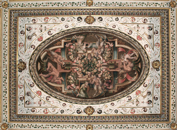 Este Castle of Ferrara, Ceiling of the Government Hall